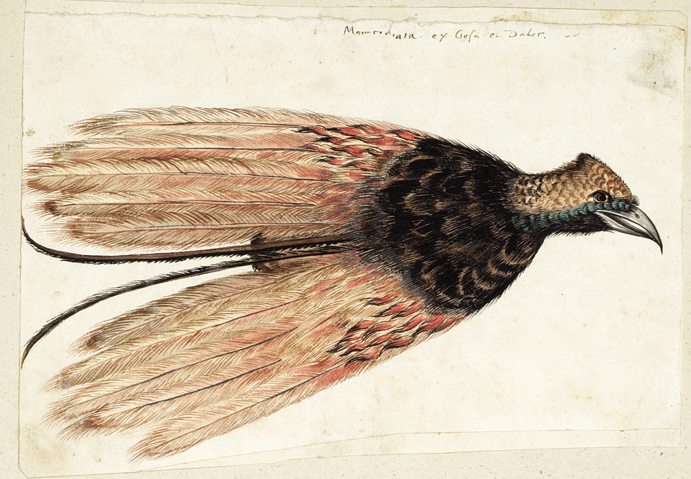 Greater Bird-of-Paradise (Paradisaea apoda) Skin by an unidentified French or Swiss artist, ca. 1550, watercolor, black ink, and gouache, with touches of white lead pigment on ivory paper, New York Historical Society